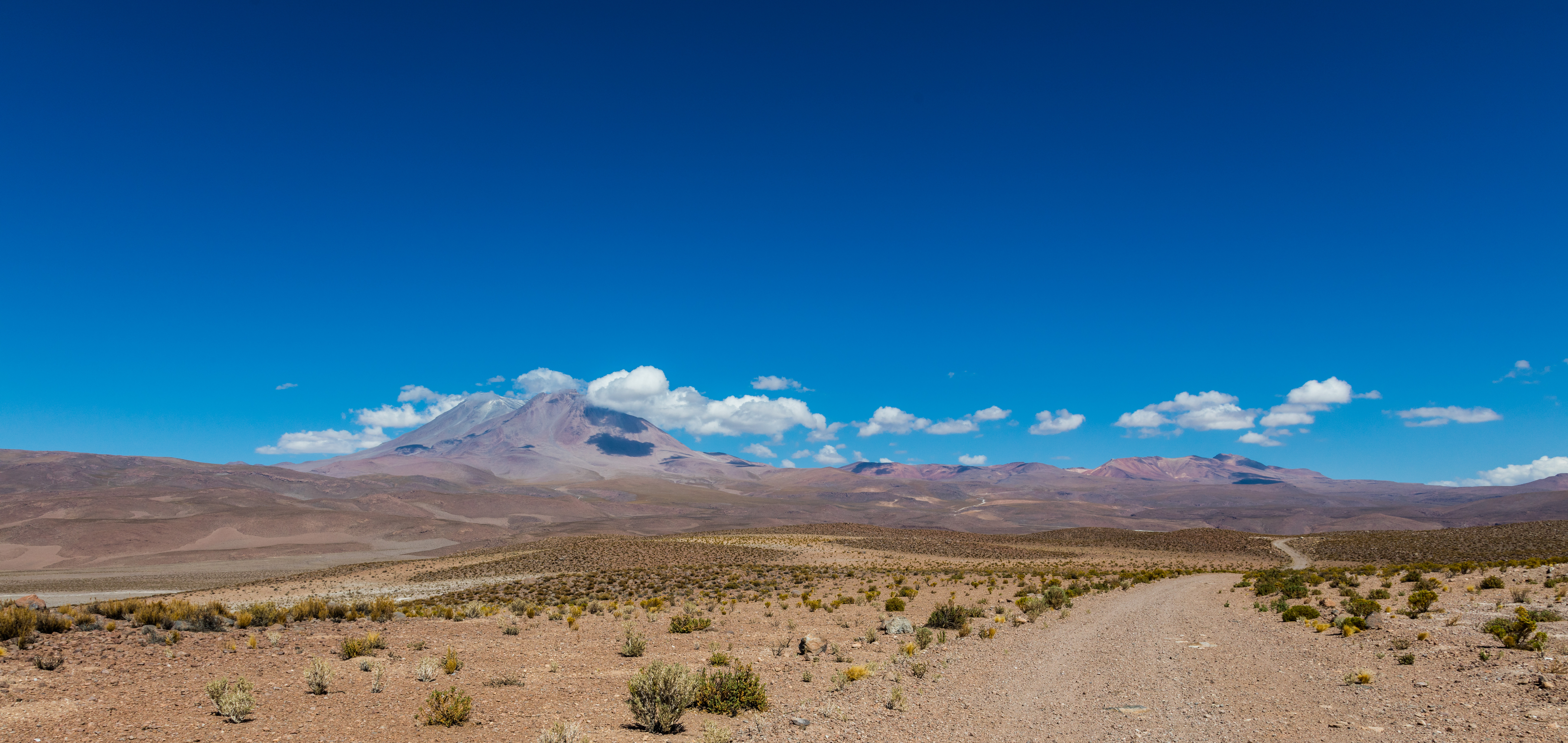 Aucanquilcha Volcano, Chile